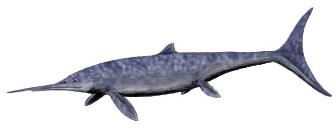 Excalibosaurus costini, an ichthyosaur from the Early Jurassic of England, pencil drawing